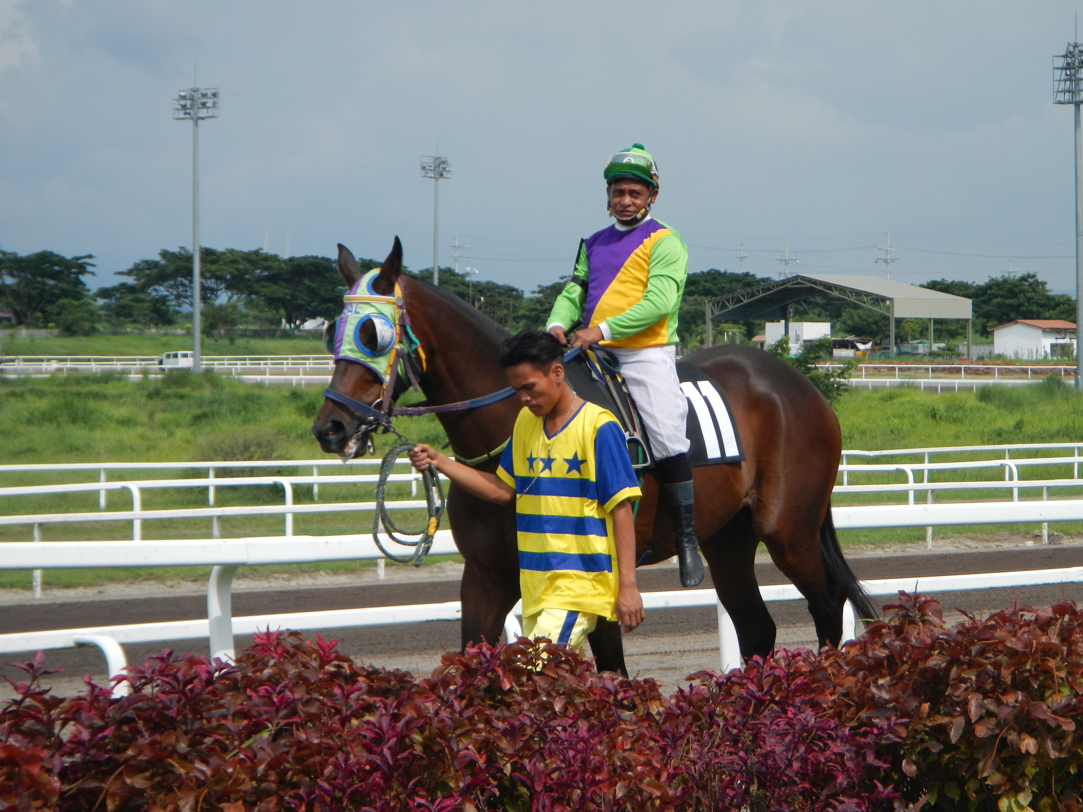 Saddle & Clubs Leisure Park (Santa Ana Park) Race Track at Sabang, Naic, Cavite[1][2] 1937Philippine Racing Club, Inc. Santa Ana Turf Club, known as Philippine Racing Club, Inc. (PRC) a publicly-listed company engaged in constructing, operating and maintaining one racetrack in Makati o. PRC has 208 quality Off-Track Betting Stations (OTB), equipped with computerized facilities. Sta. Ana Park A.P. Reyes Ave., Makati City [3] [4] It is located in the tri-boundary area of the municipalities of Naic, Tanza and Trece Martirez in Cavite. Sta. Lucia Realty & Development Inc. and its partners namely: Philippine Racing Club Inc. 1,600-meter sand track is 25 meter wide, has inside turning radius of 128 meters, homestretch between turns in 400 meters long, and the distance from the finish line is 100 meters with approximately 1,000 stable with tack and feed rooms.